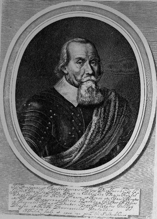 Jakob Pontusson De la Gardie (1583-1652)